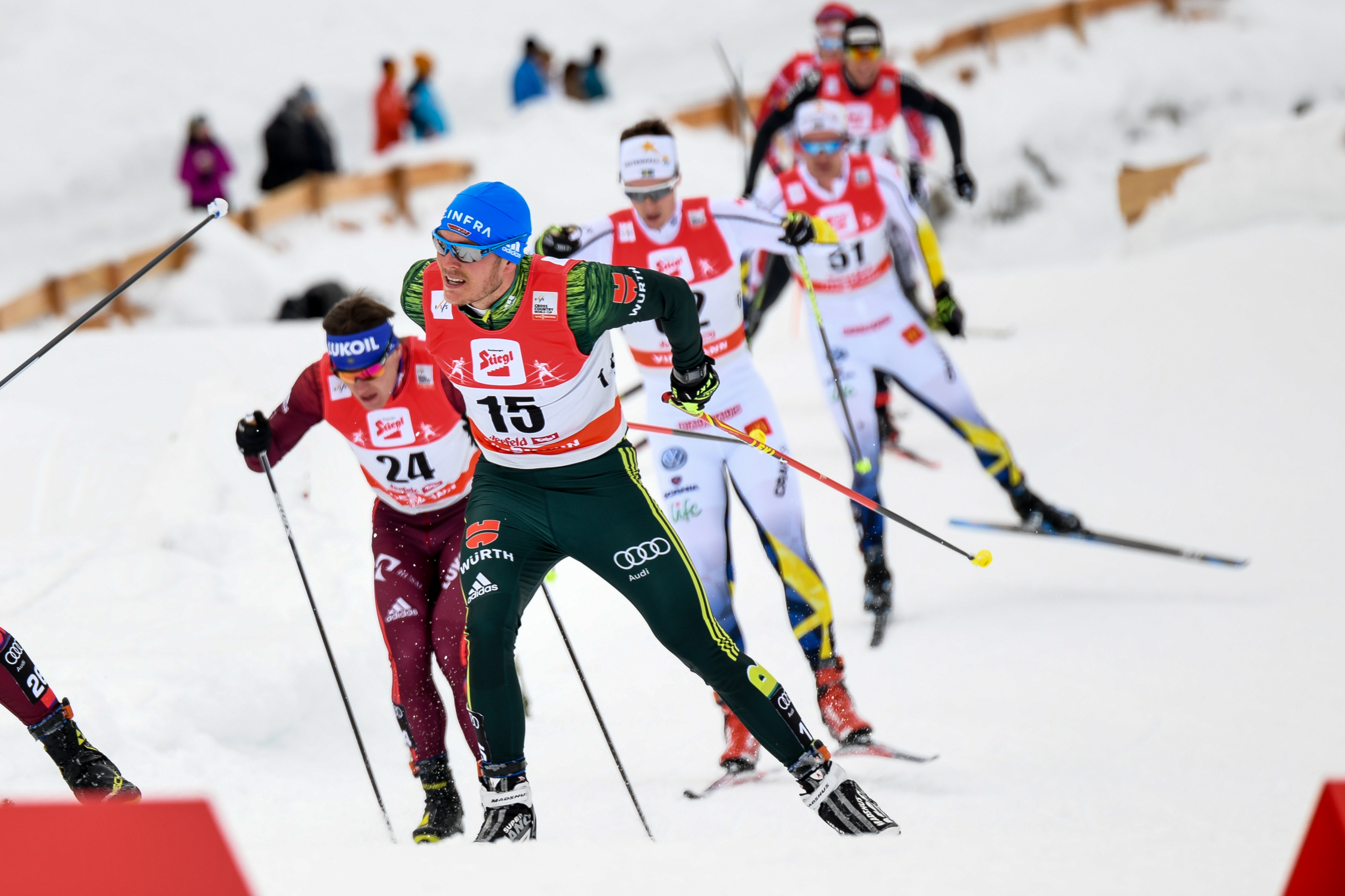 Seefeld-Triple 2018, third day January 28th. Picture shows MELNICHENKO Andrey (RUS), BOEGL Lucas (GER).